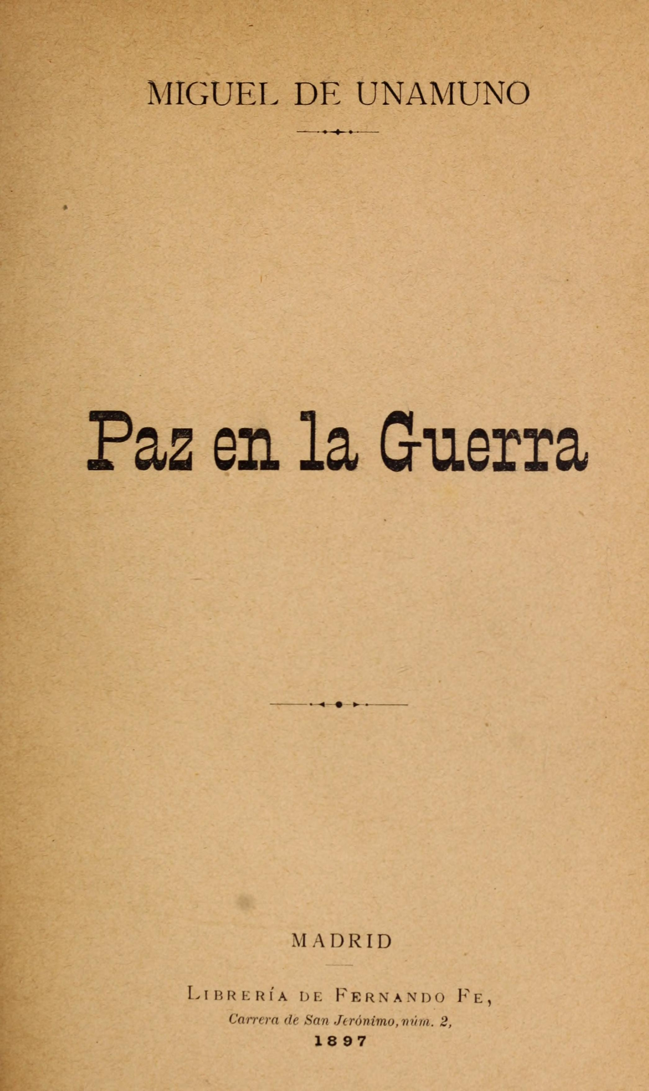 Paz en la guerra cover page 1897